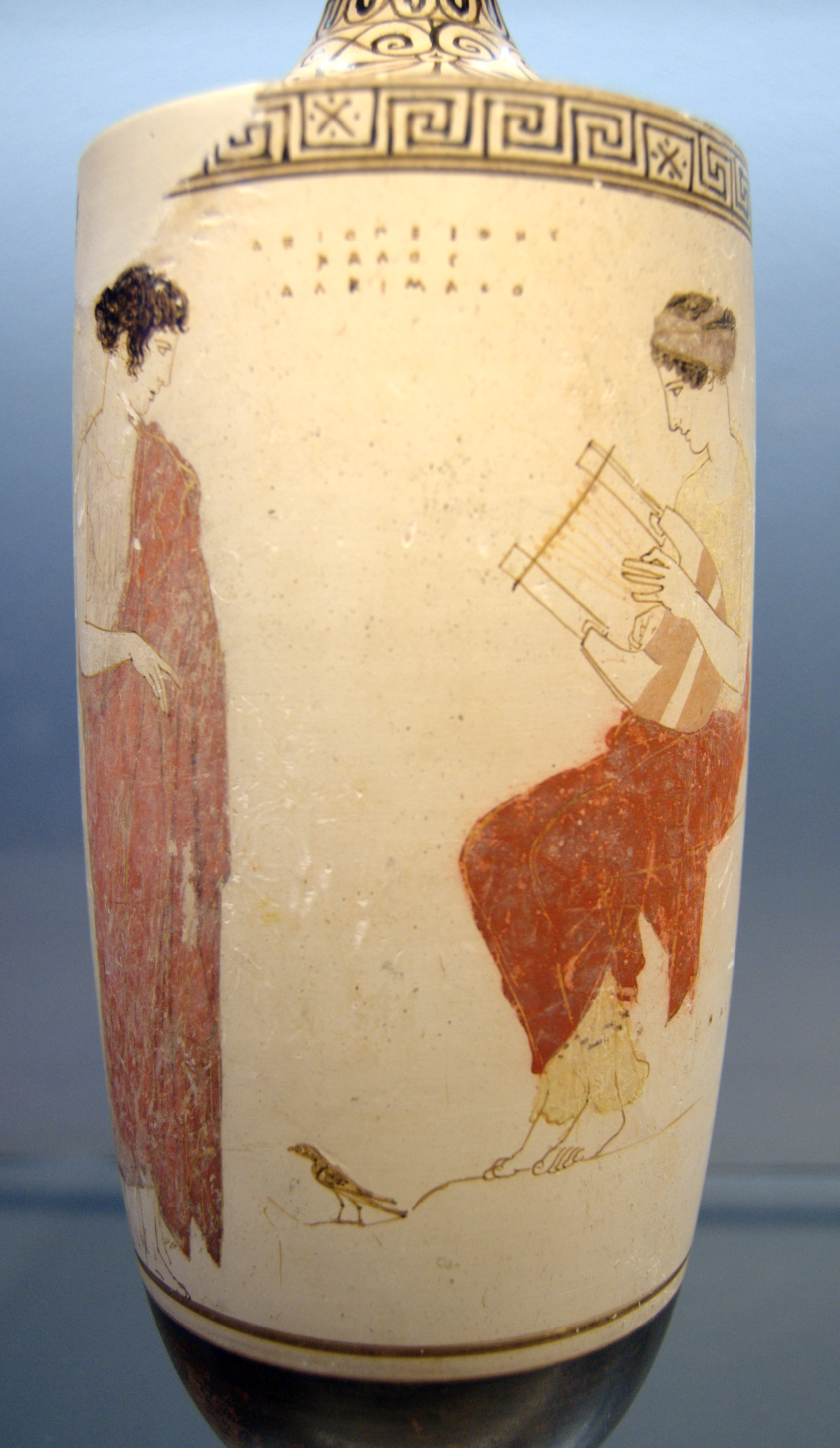 Two muses on Helicon. Attic white-ground lekythos, 440–430 BC.